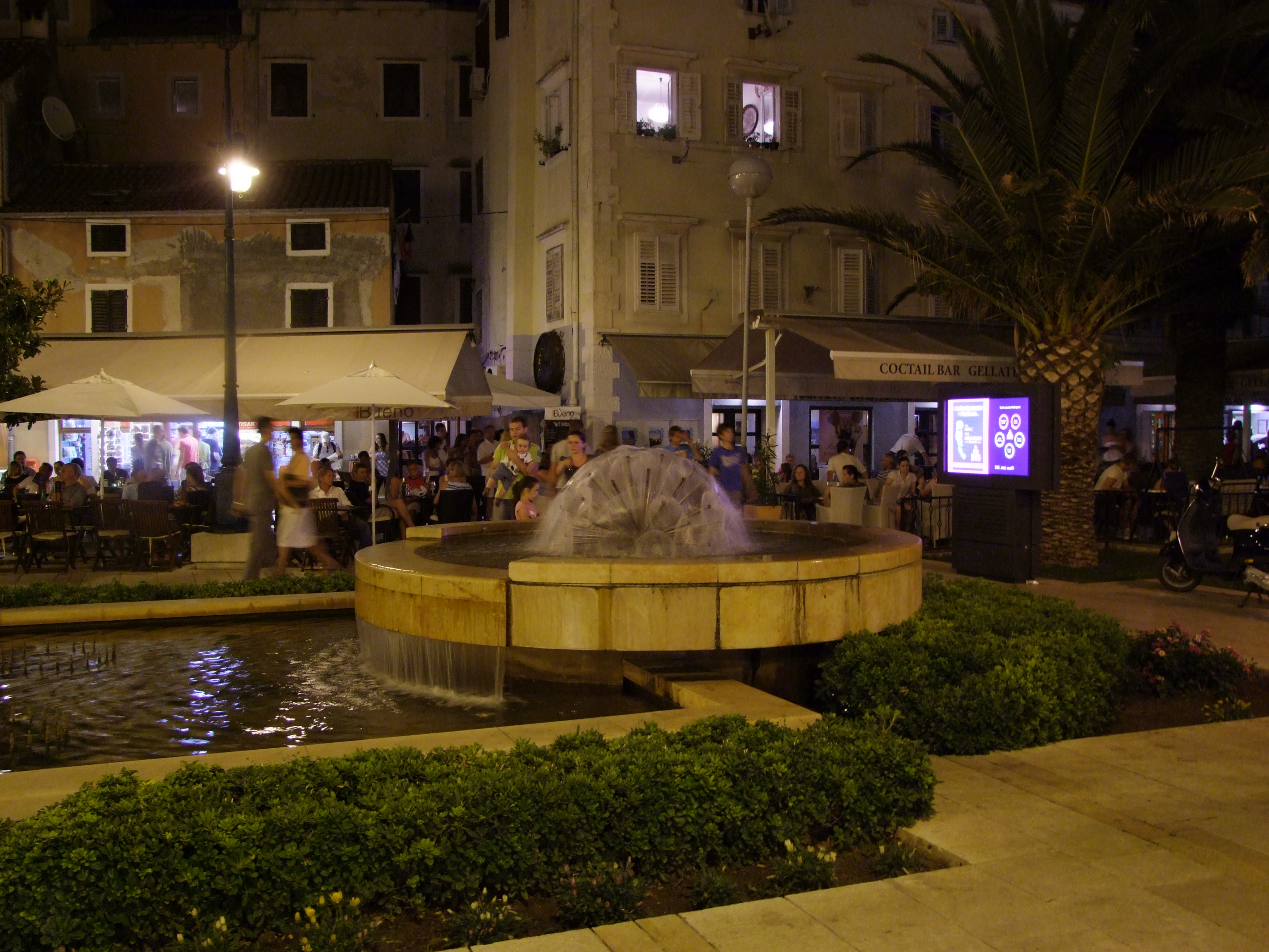 Fountain in Mali Lošinj, Croatia.